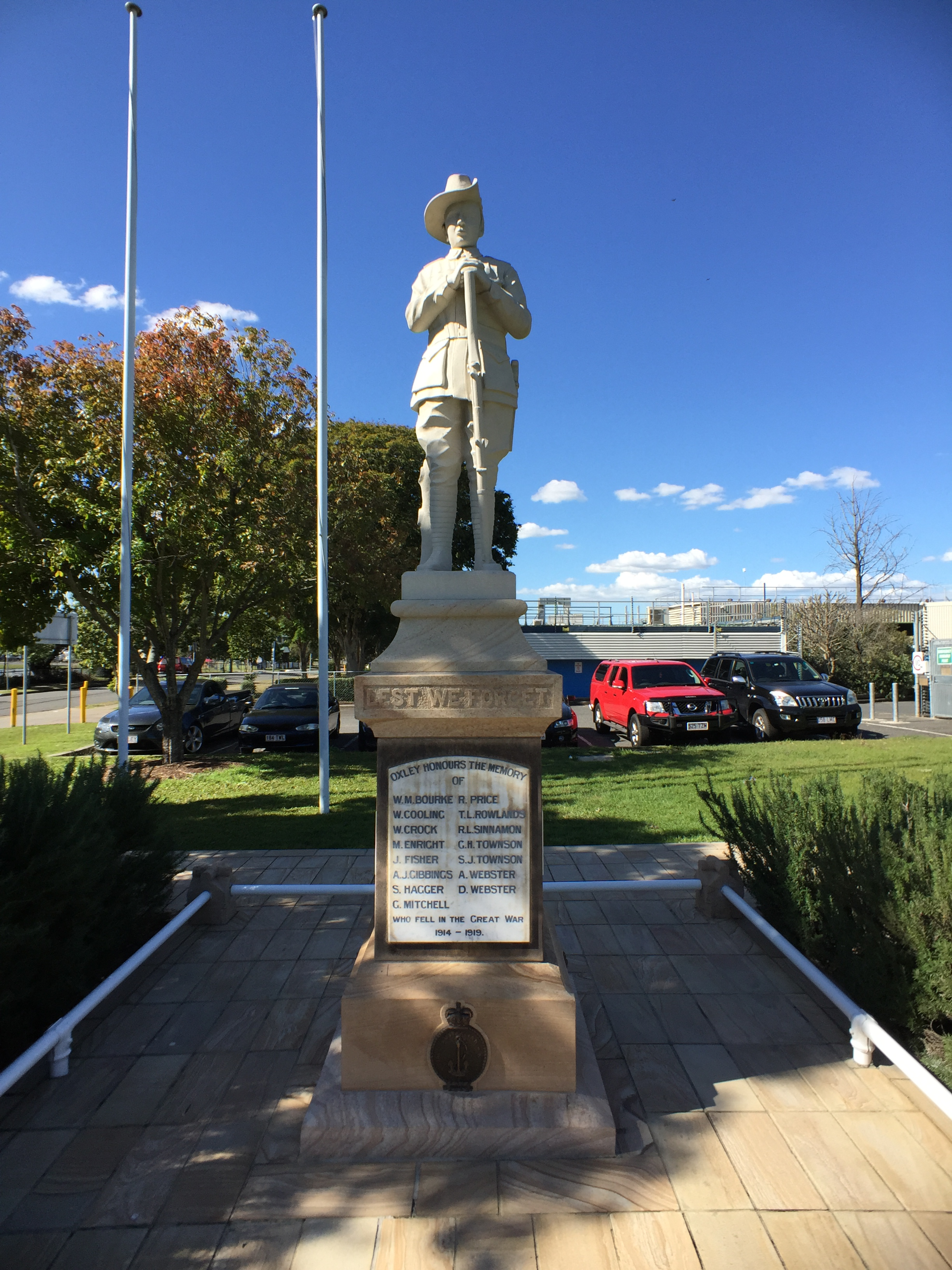 Oxley War Memorial at Oxley, Brisbane, Queensland, Australia.